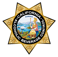 Badge from the California Alcoholic Beverage Control Department